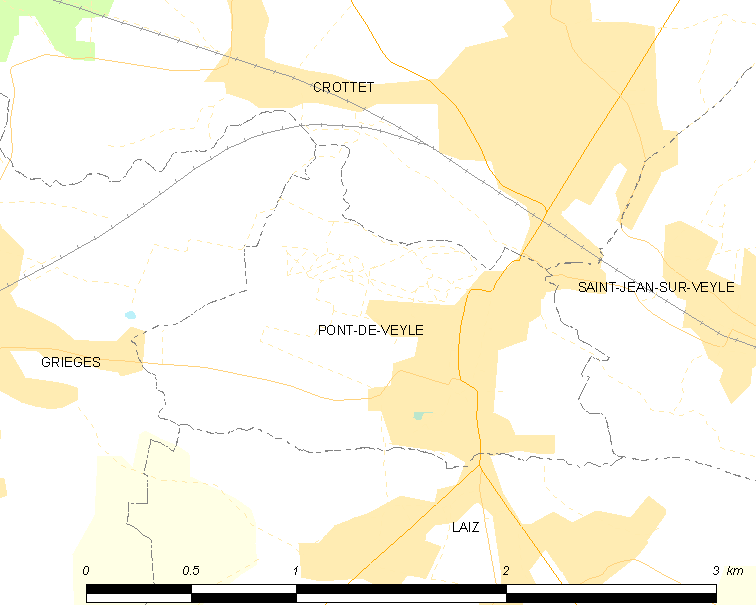 Map of French commune: Pont-de-Veyle Map commune FR insee code 01306.png